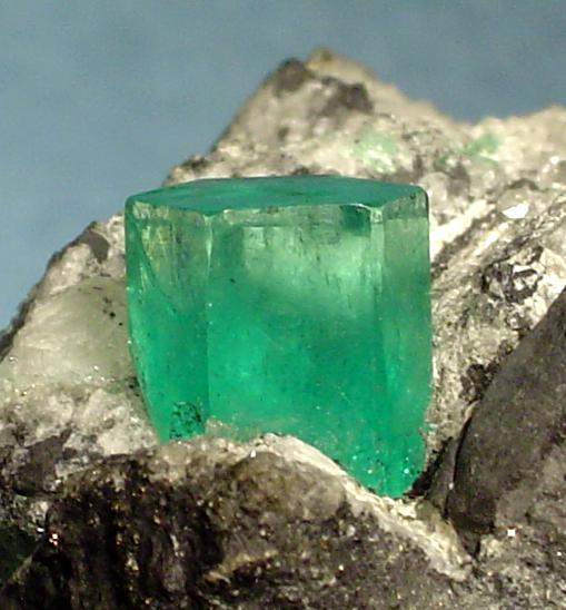 Beryl (Var.: Emerald), Calcite Locality: Coscuez Mine (Cosquez Mine), Muzo, Vasquez-Yacopí Mining District, Boyacá Department, Colombia (Locality at ) Size: 5.6 x 4.4 x 3.2 cm. A gorgeous, gemmy and lustrous, 1.1 cm emerald crystal with superb color is set atop blocky, starkly contrasting calcite and shale matrix from the Coscuez Mine of Colombia. This crystal is particularly gemmy in the upper 2 mm and does not appear to have any inclusions or internal crazing. A very fine, highly representative emerald specimen.